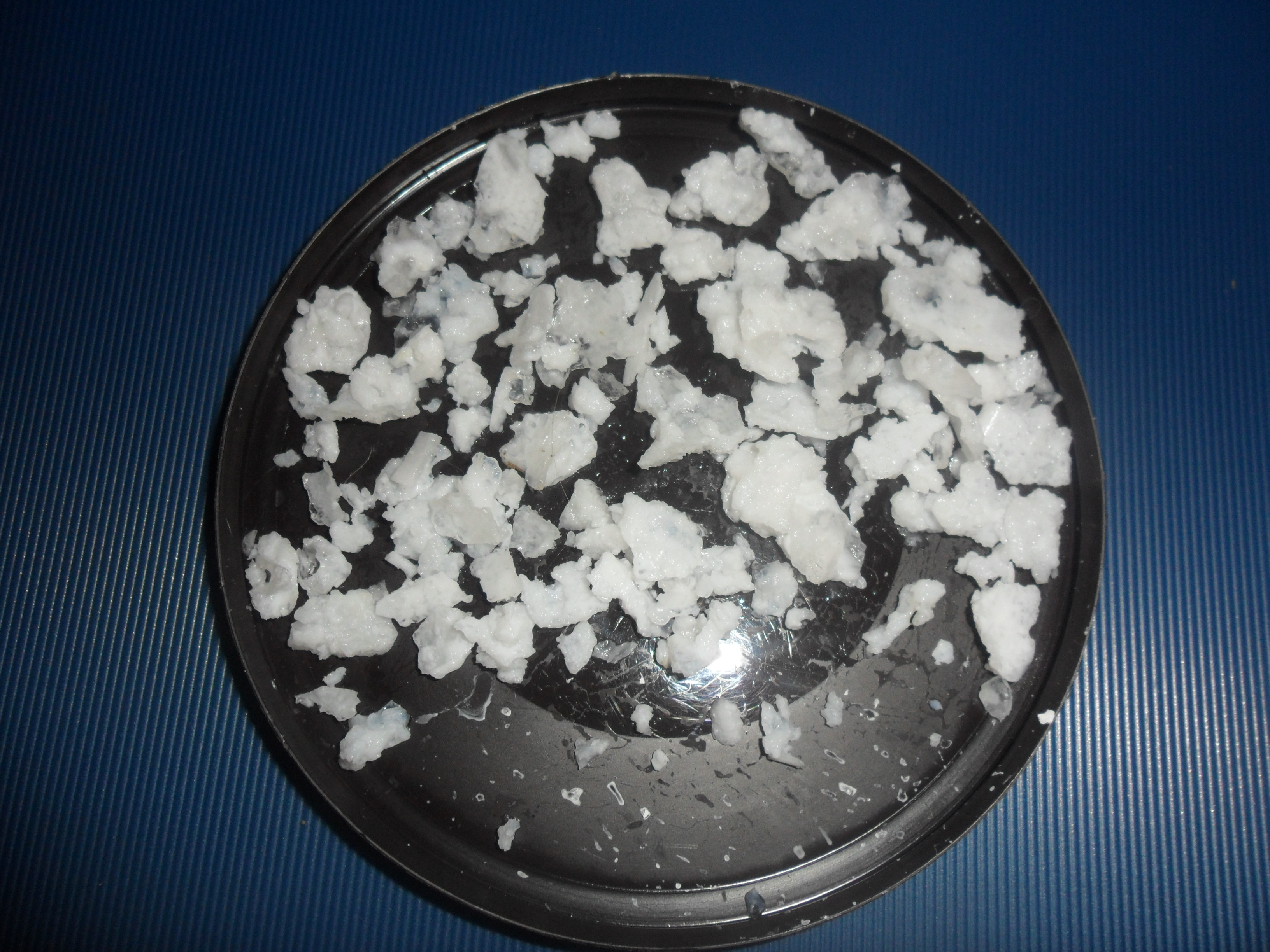 The acid obtained by mixing waterglass (Na2SiO3) and table vinegar (CH3COOH) (Warning: probably silica gel rather than metasilicic acid)